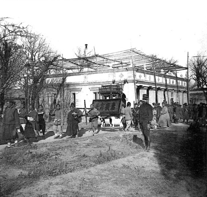 Image from La Chine à terre et en ballon.